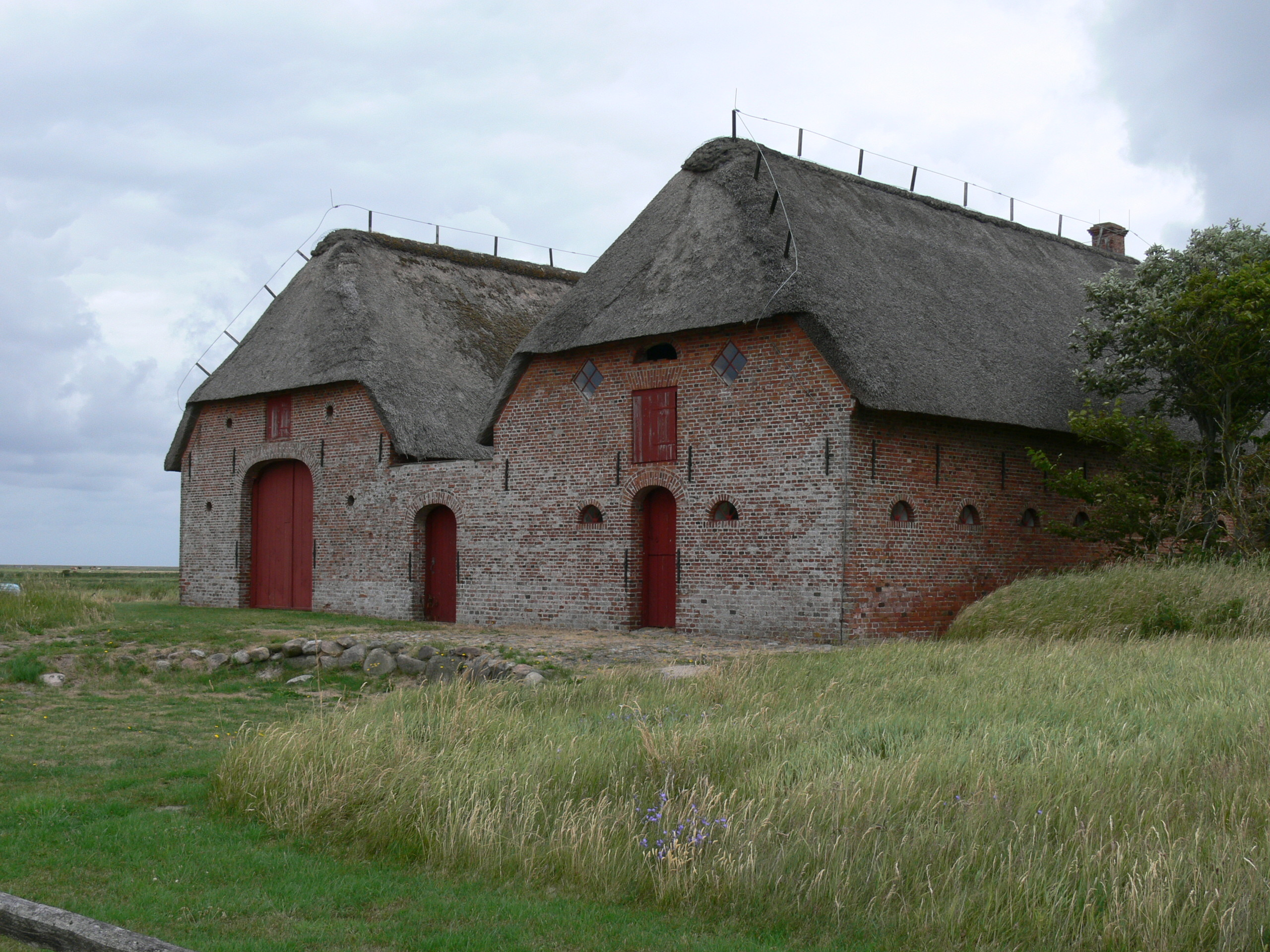 Rømø ( Denmark ). Kommandørgård National Museum - Stables.